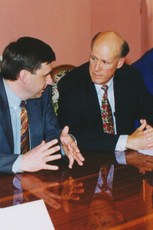 Ion Sturza (at the left) - the Moldavian politician.